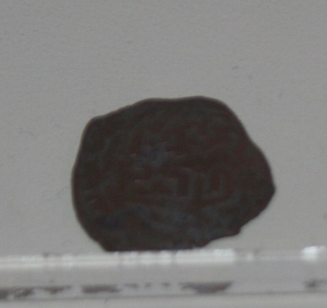 Copper dirham of Ozbeq